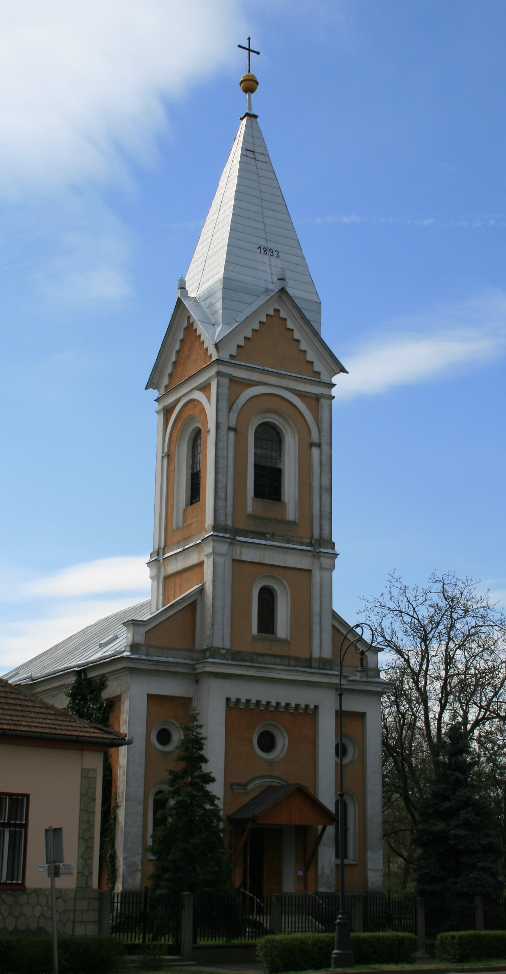 Catholic church building in Mátészalka, Hungary, from the end of the 19. century